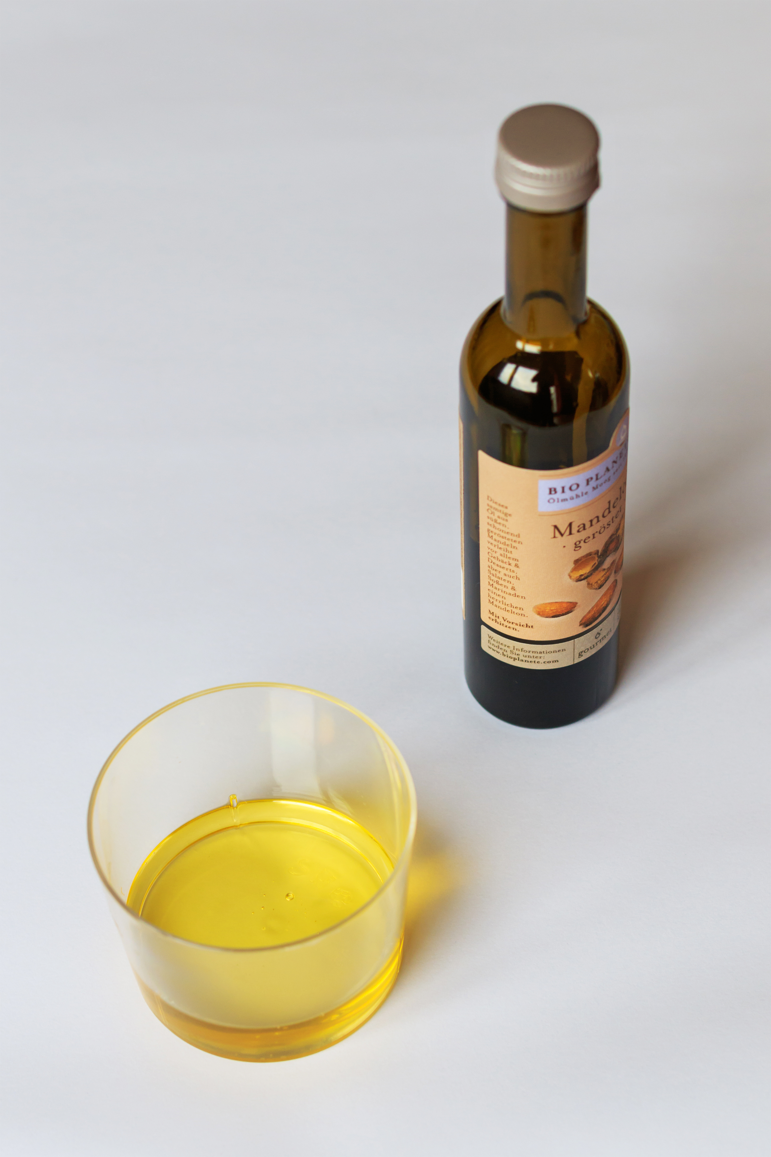 BIO almond oil from Spain